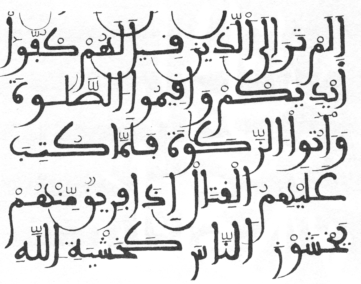 Page from a Quran manuscript, Andalusian style. Cordoba, 14th century.